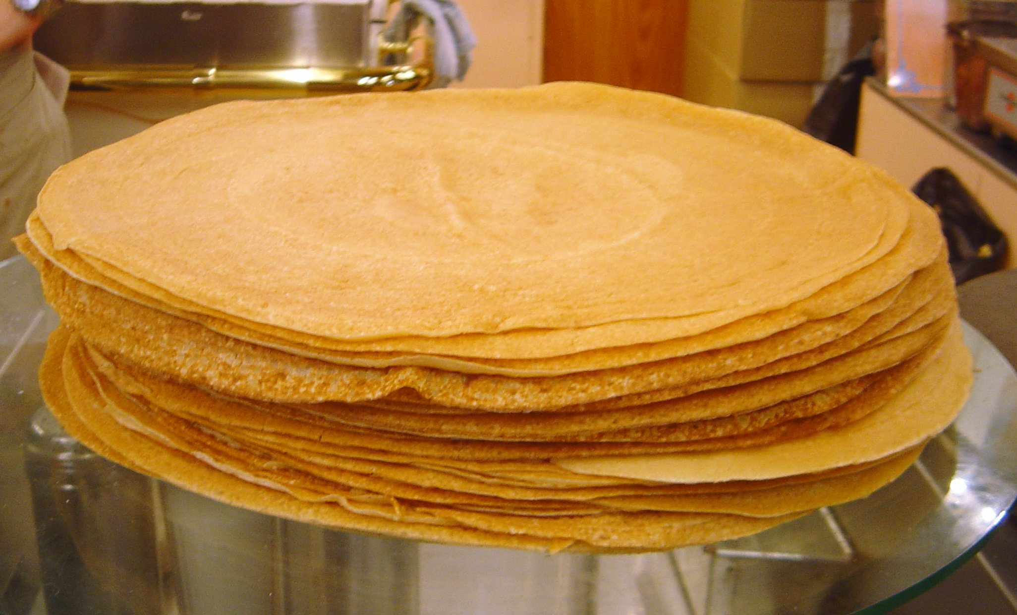 Crepe